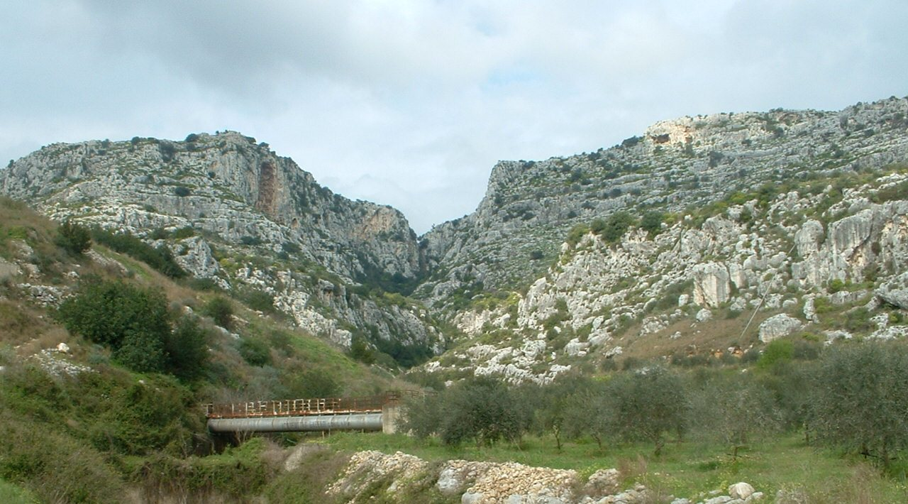 A tipical cava on the southeast side of Climiti Mountains, in province of Syracuse